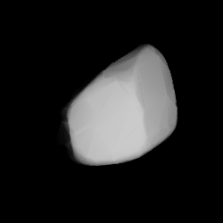 3D convex shape model of 968 Petunia, computed using light curve inversion techniques. J. Hanuš, J. Ďurech, M. Brož, B. D. Warner (June 2011). "A study of asteroid pole-latitude distribution based on an extended set of shape models derived by the lightcurve inversion method". Astronomy and Astrophysics 530: A134. ISSN 0004-6361. arXiv